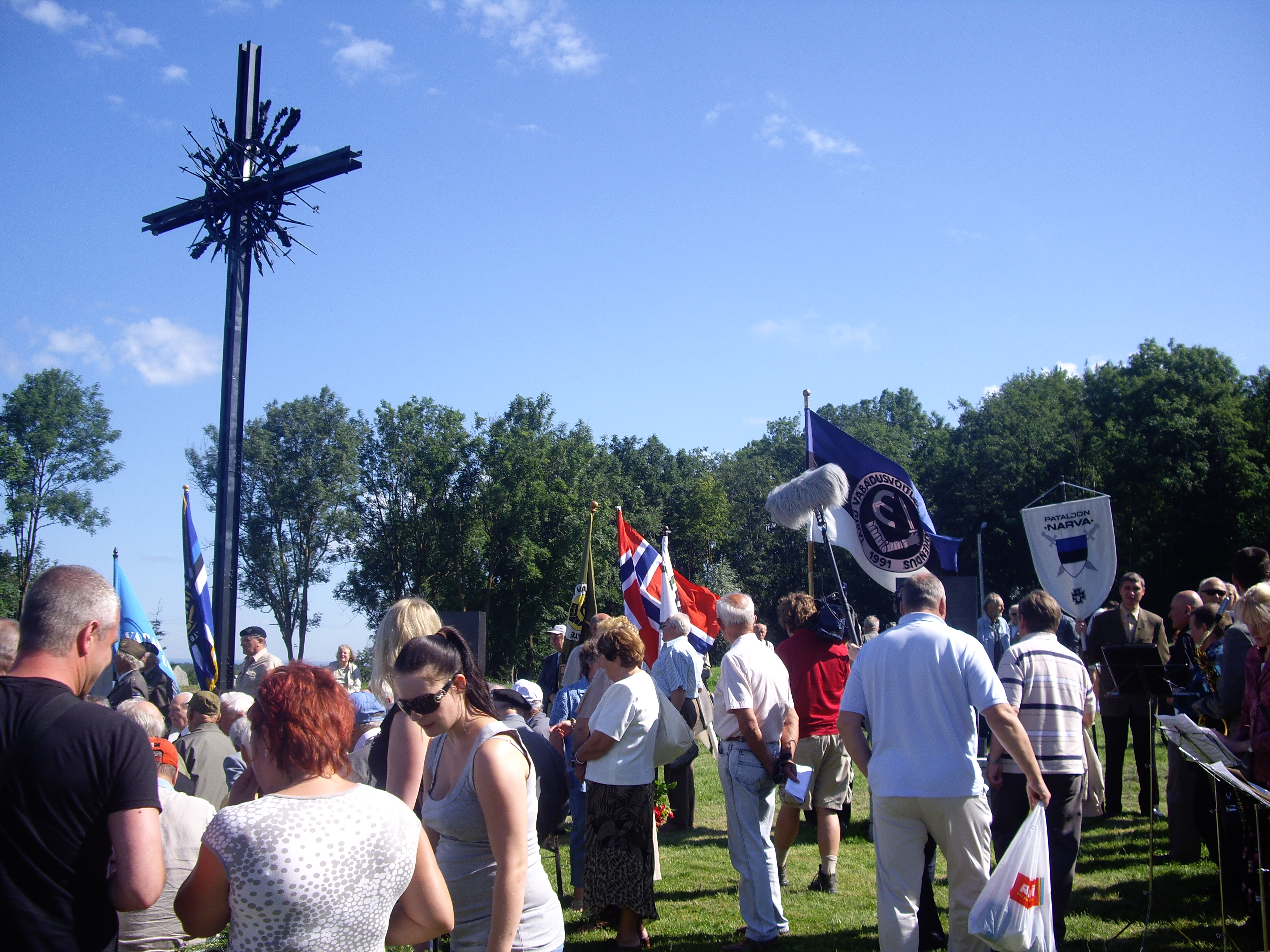 Meeting of Estonian WWII veterans on Blue Hills, 2008.